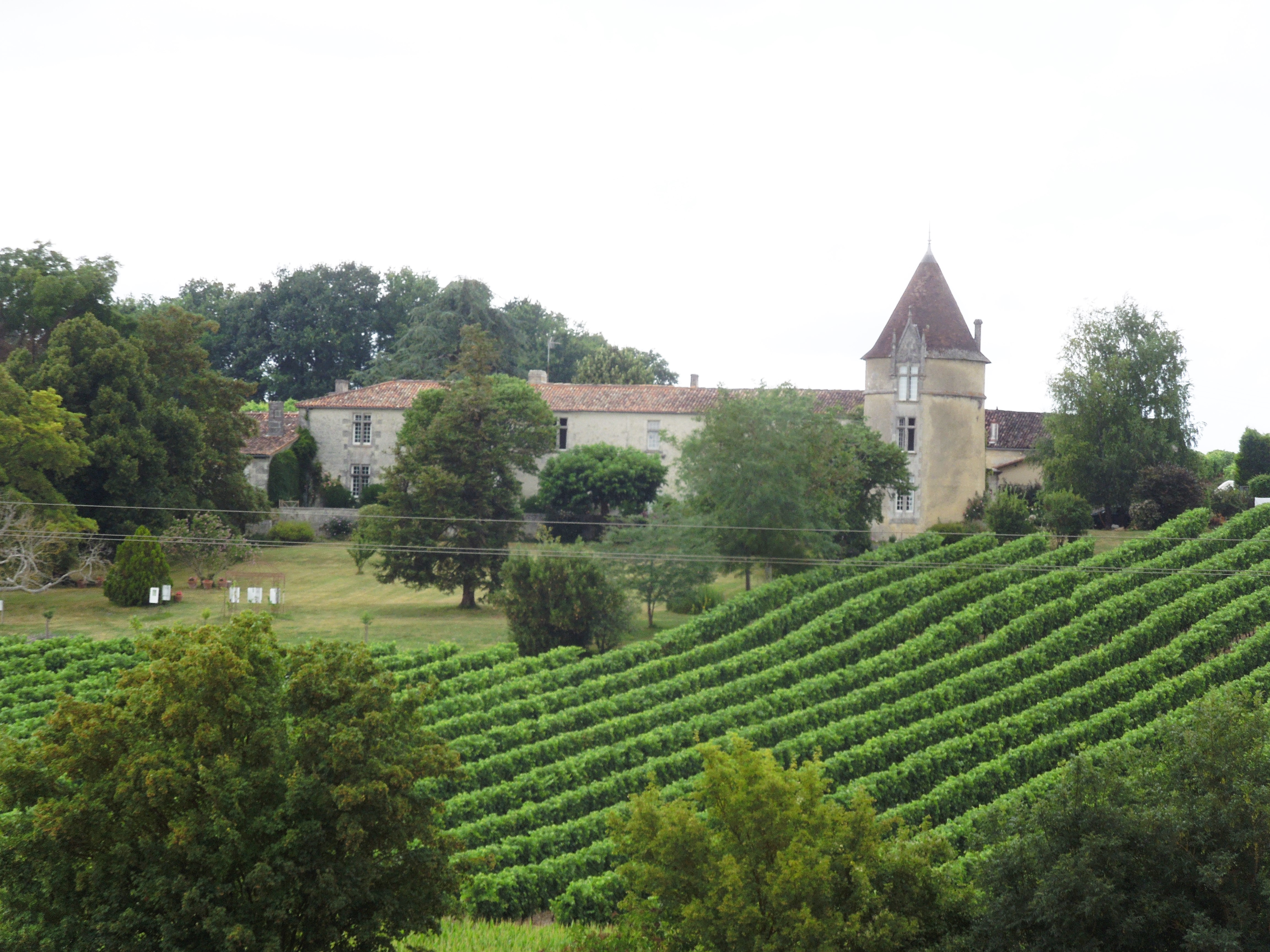 A farm, Domaine de Pimbert, amidst its vineyards south of Arthenac